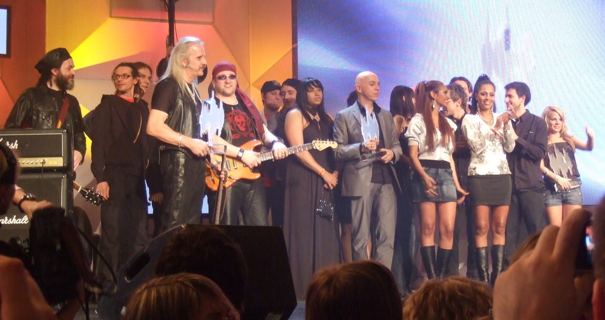 Amadeus Austrian Music Award 2008